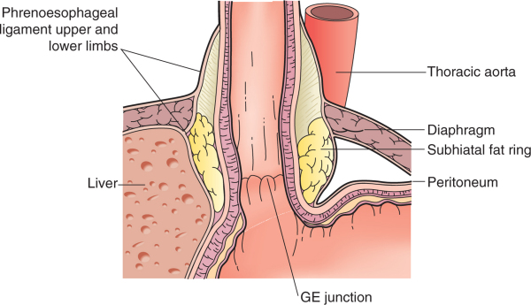 Phrenoesophageal ligament in relationship to the cardia and fundus of the stomach. Image related to Gastroesophageal Reflux Disease (GERD)